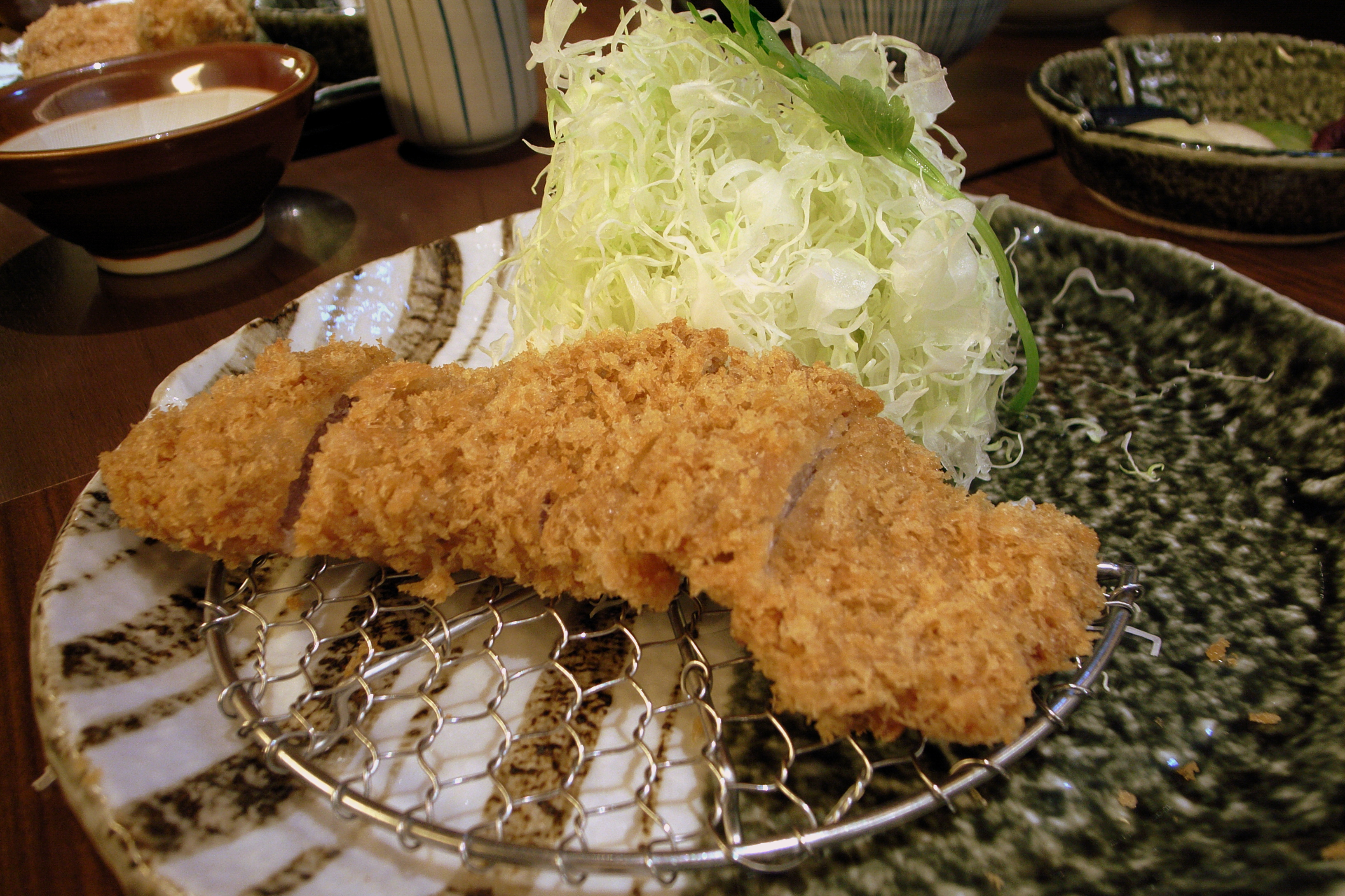 Tonkatsu restaurant Myodai Tonkatsu Katsukura in Shinjuku Takashimaya, Sendagaya, Shibuya, Tokyo